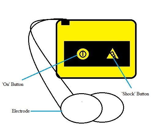 Automated external defibrillator (AED).